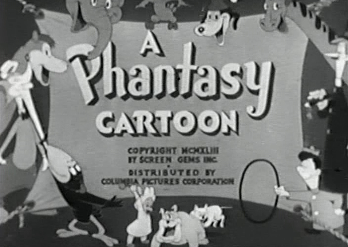 This is the title card for the cartoon series made by Columbia Pictures entitled Phantasy, Image is from Mass Mouse Meeting which was released in 1943.